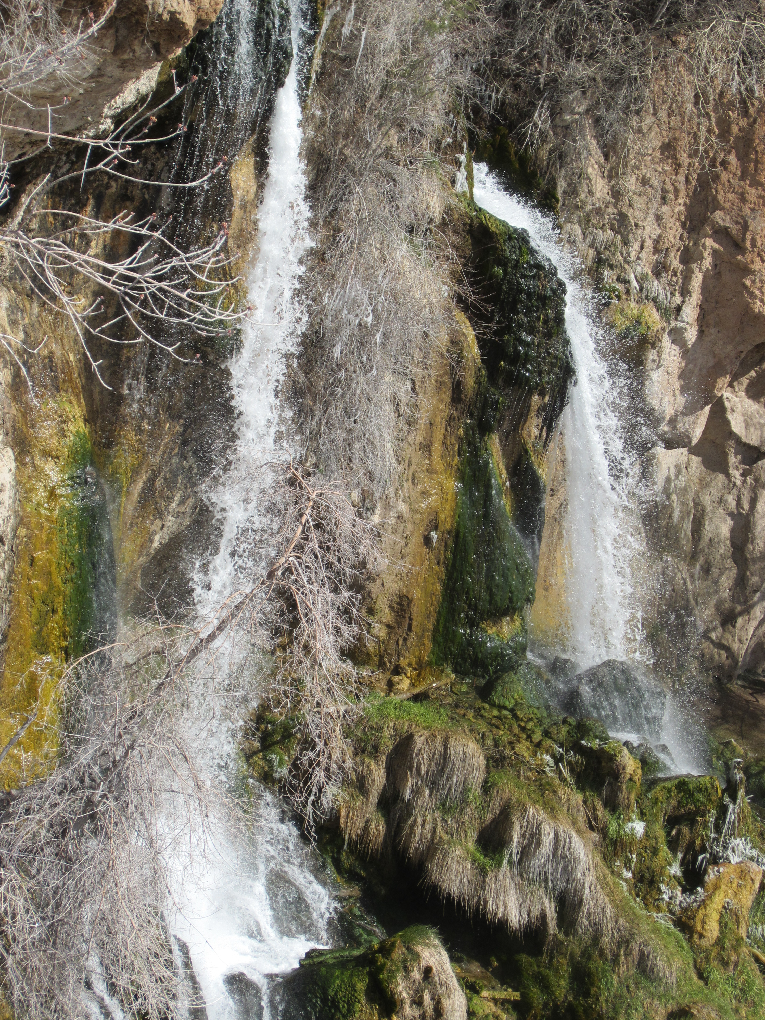 The falls at Rifle Falls in late spring